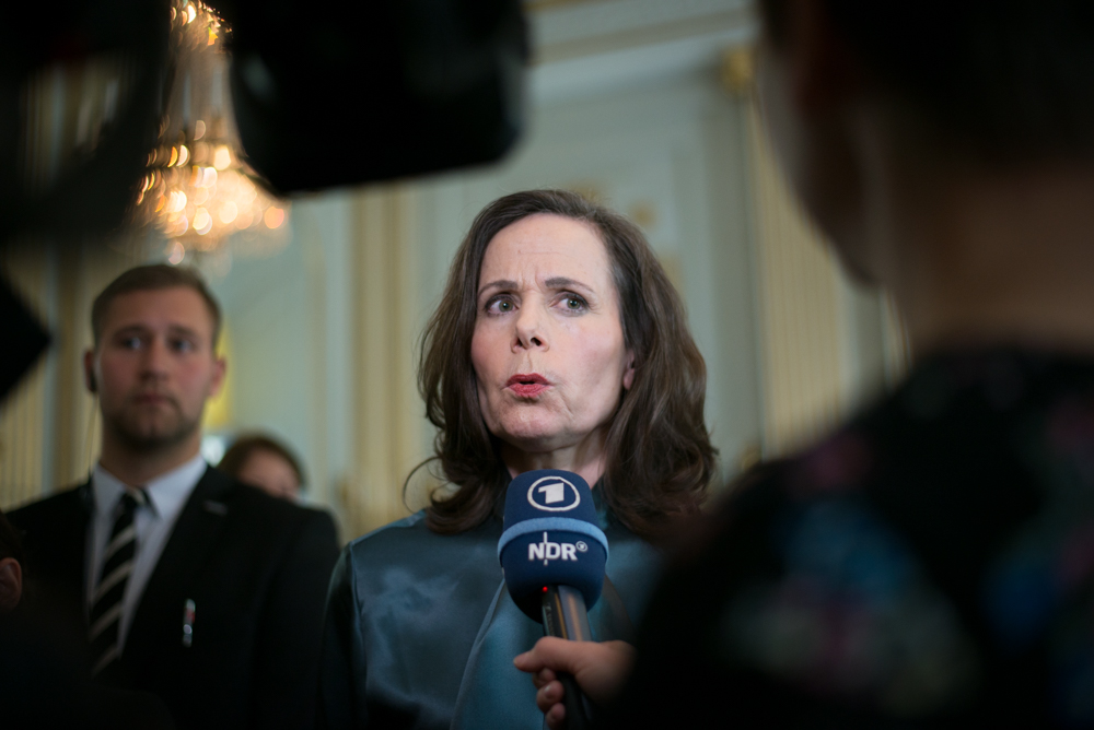 Permanent Secretary of the Swedish Academy Sara Danius announces the Nobel Prize in Literature in 2017.